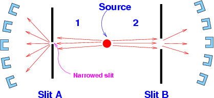 Created by Tabish Qureshi